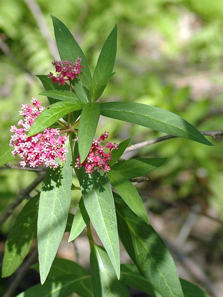 swamp milkweed asclepias incarnata